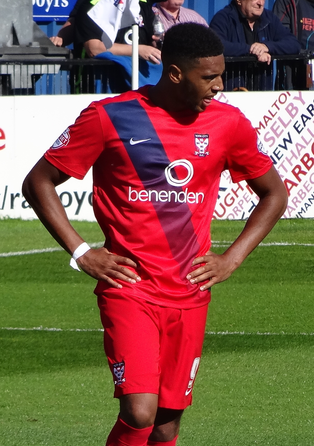 Vadaine Oliver playing for York City against Hartlepool United at Bootham Crescent, York on 15 August 2015